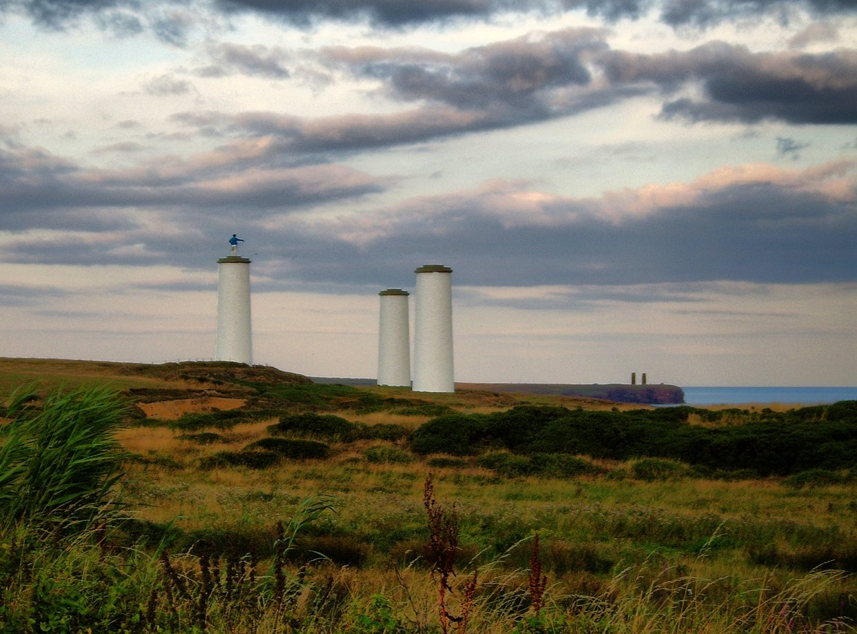 The 3 Metal Man beacons on Greater Newtown Head in Tramore, and across Tramore Bay on the eastern arm, lay the 2 Brownstown Head beacons. These were erected in the early 1800s after the terrible tragedy of the Sea Horse which went down in the Bay, with a loss of around 350 souls, including women and children. It is said the seahorse logo of Waterford Crystal goods was used as a reference to this. The Metal Man figure is one of two cast from a mould, though 4 were originally thought to have been made. He is dressed in the uniform of a Naval Petty Officer. The other Metal Man is in Sligo Bay. Sadly the beacons didn't prevent many accidents, and there are many shipwrecks around the treacherous rocks at Newtown Head, and others ran aground on sandbanks when they mistook Tramore Bay for the deep waters of Wateford Harbour. The estuary of the confluence of the Suir, Nore and Barrow (3 Sisters) runs into the sea at Dunmore East, further east from Tramore.